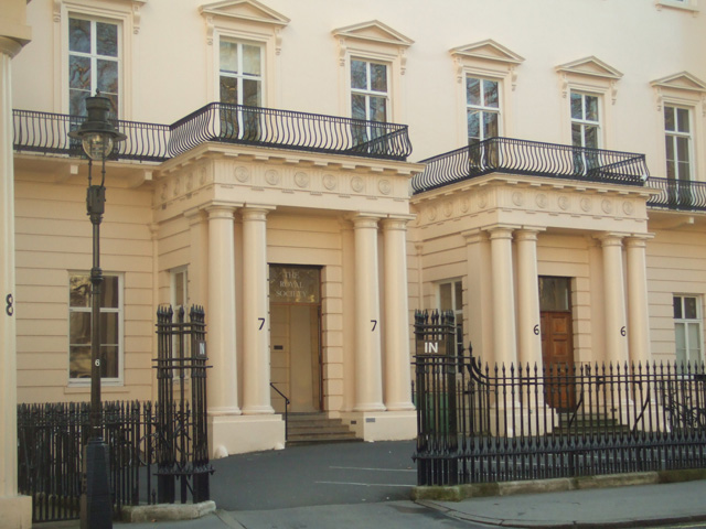 Royal Society. Darwin became a fellow of the society on on 24 January 1839.